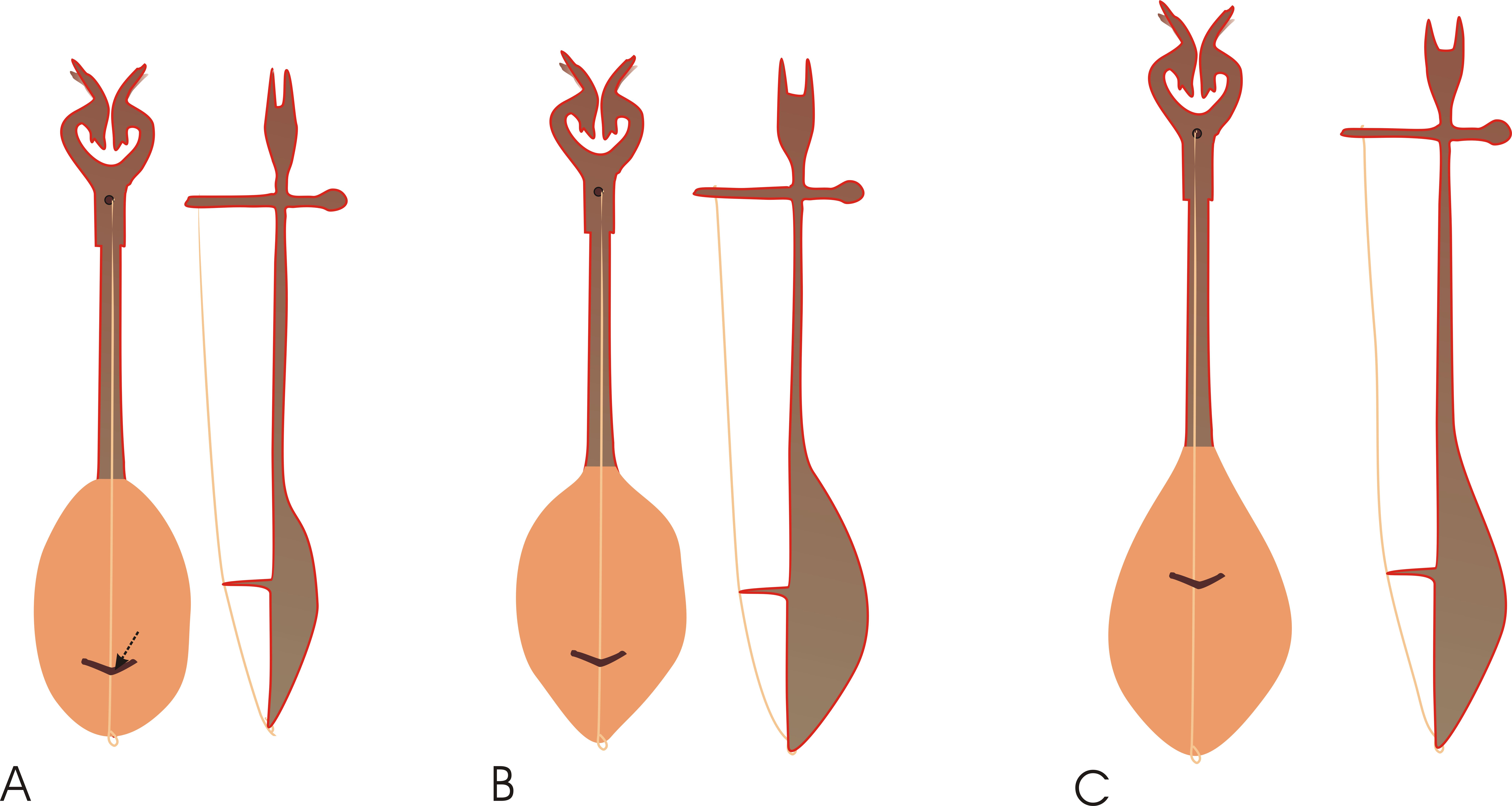 Serbian, Bosnian, Montenegrin gusle types after Walther Wünsch